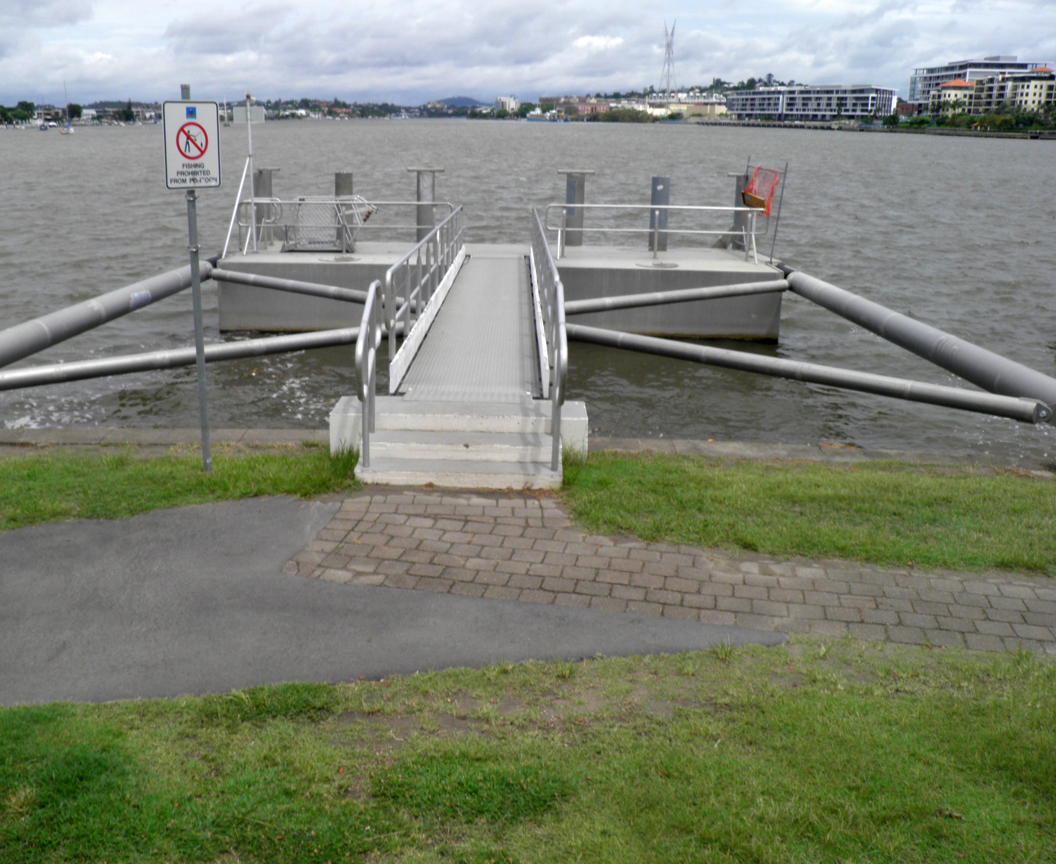 Pontoons located at Newstead Park, Newstead. There are multiple pontoons at this location.